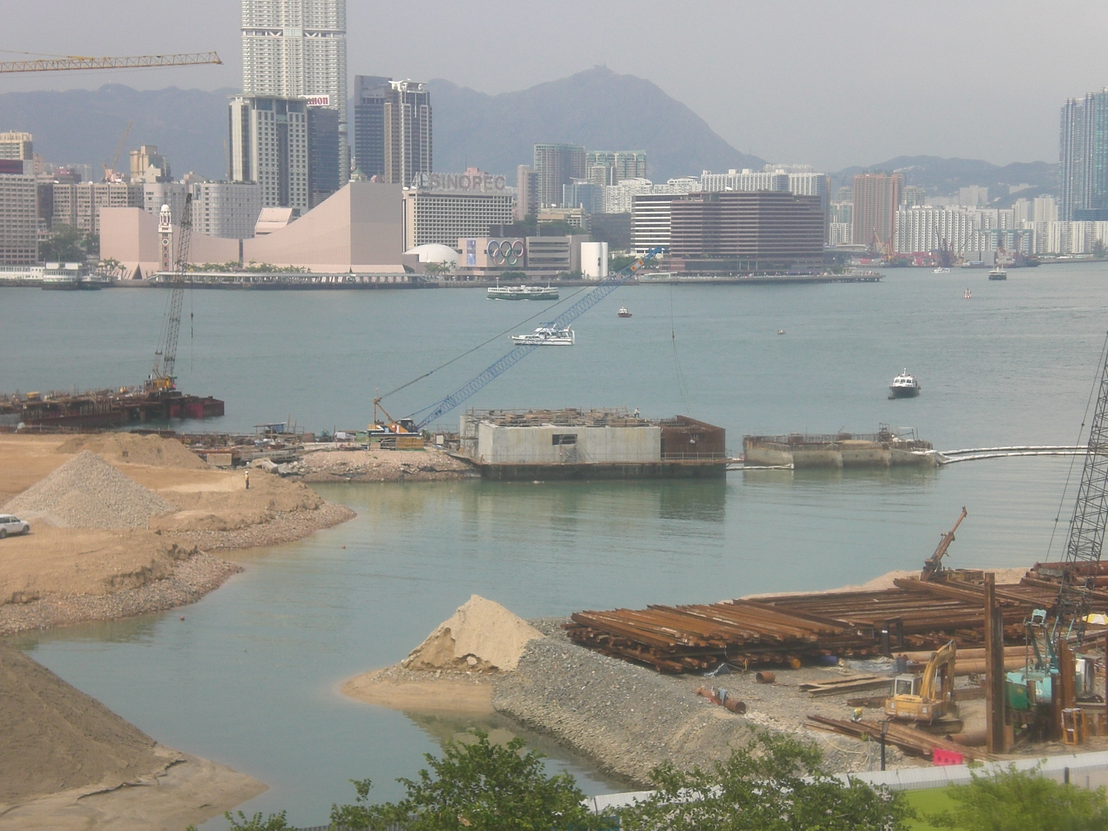 中環香港大會堂(高座)遠眺中環及灣仔填海計劃建築工地、前皇后碼頭、中環公眾碼頭9號、九龍半島、紅磡等